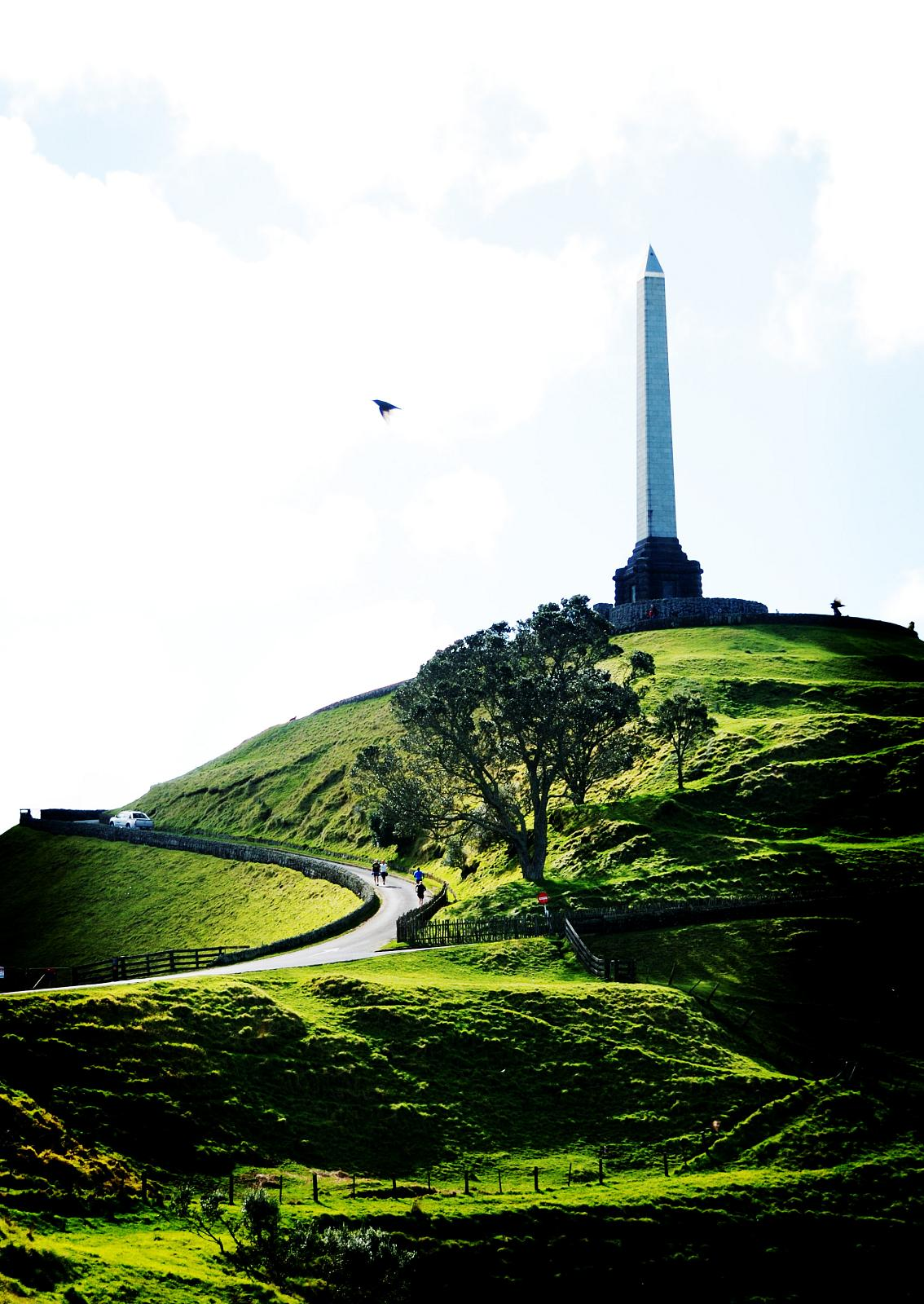 One Tree Hill, Auckland, New Zealand. Image taken on 16 August, 2008 using a Nikon D80 by Sajeewa of Flickr.